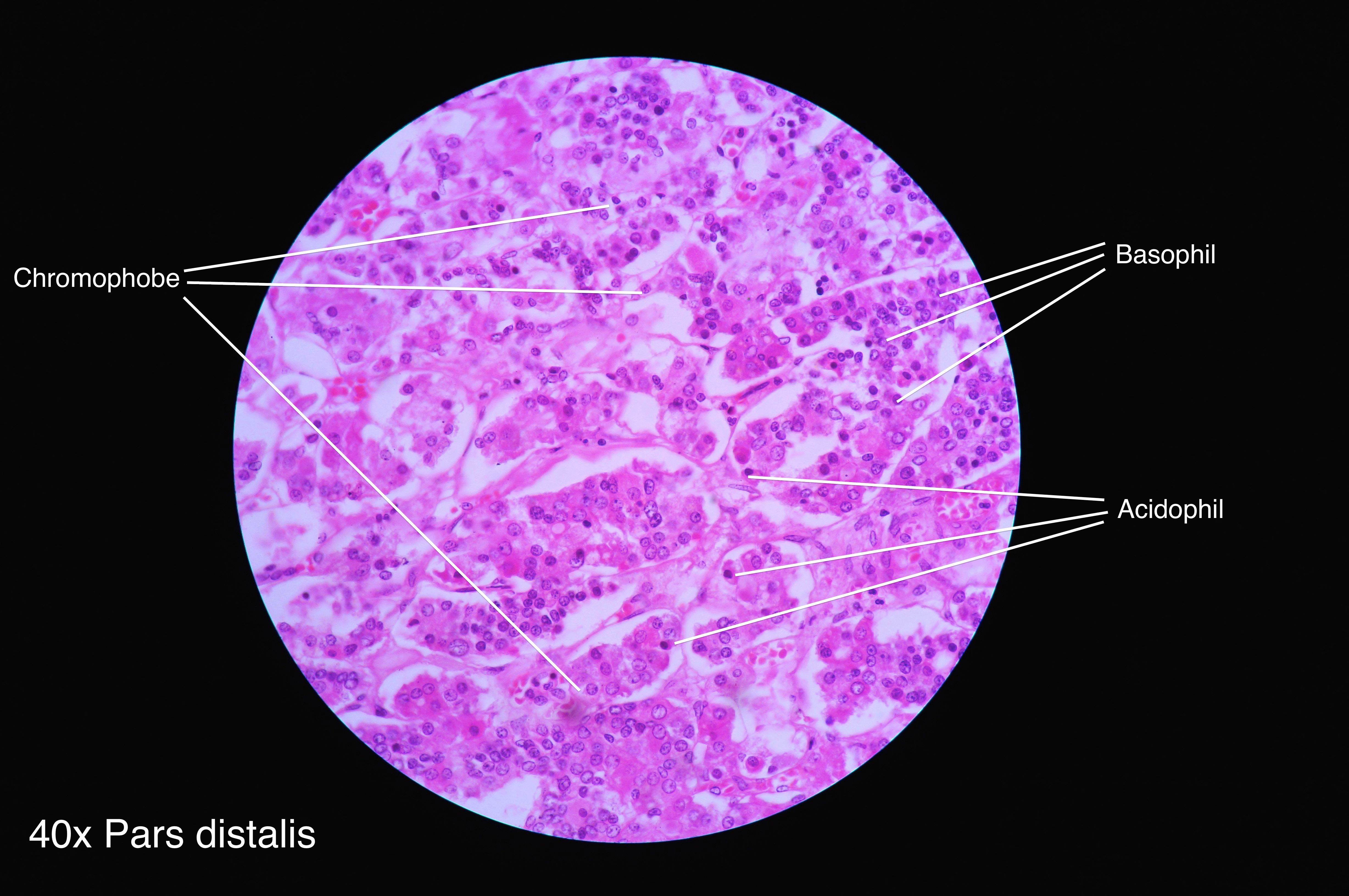 Histology of pars distalis